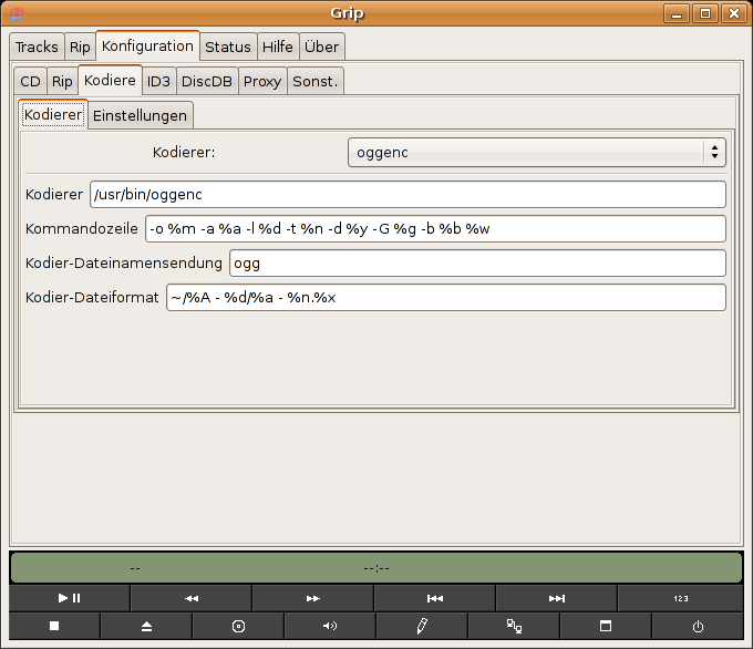 GRIP settings for ripping into the free Ogg/Vorbis file format